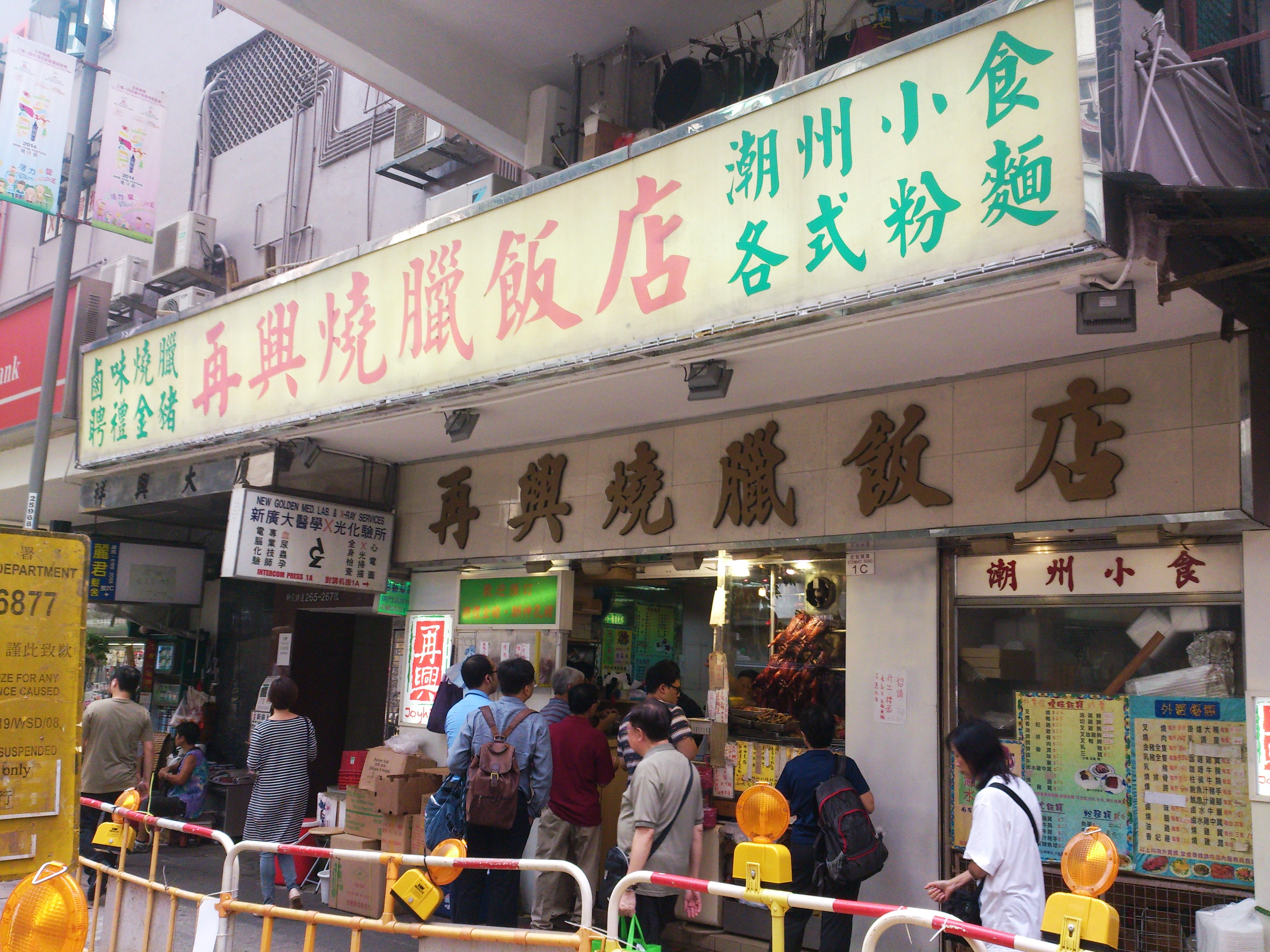 Joy Hing Roasted Meat Restaurant